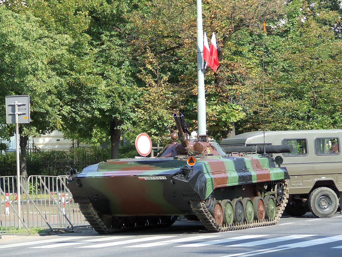 Polish Army BWP-1 (Soviet BMP-1) infantry fighting vehicle. BWP-1